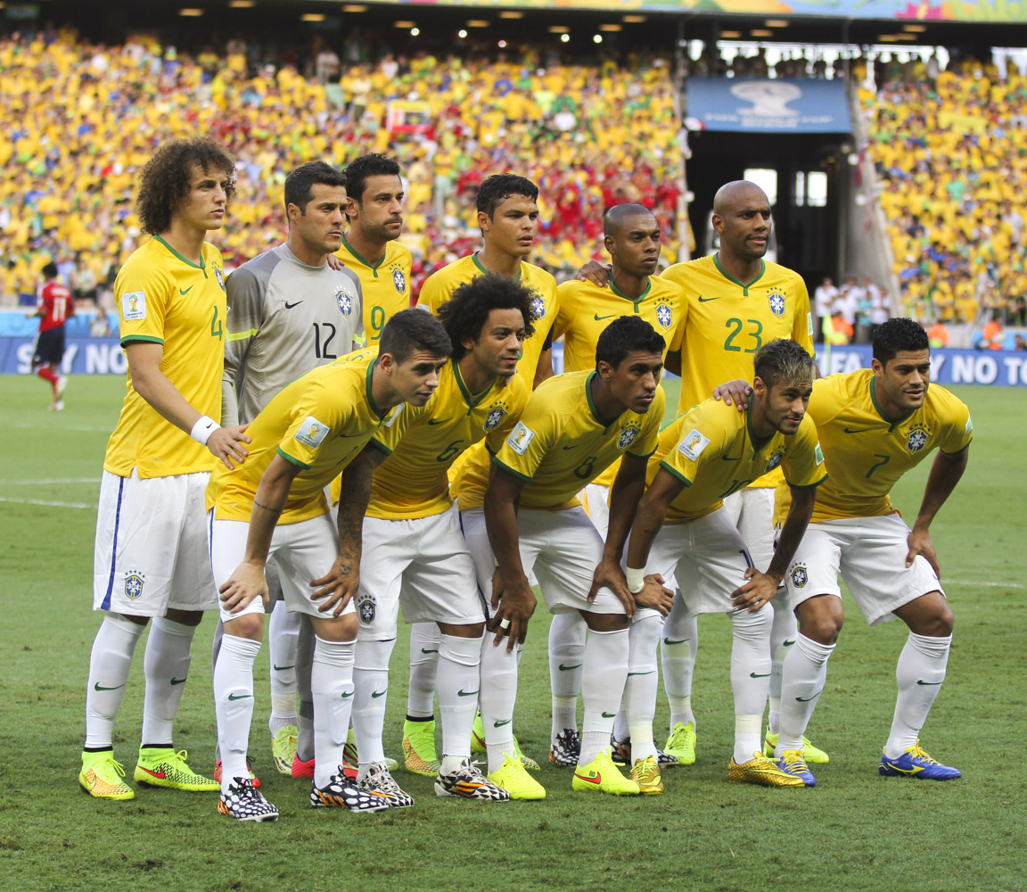 Brazil and Colombia match at the FIFA World Cup 2014-07-04